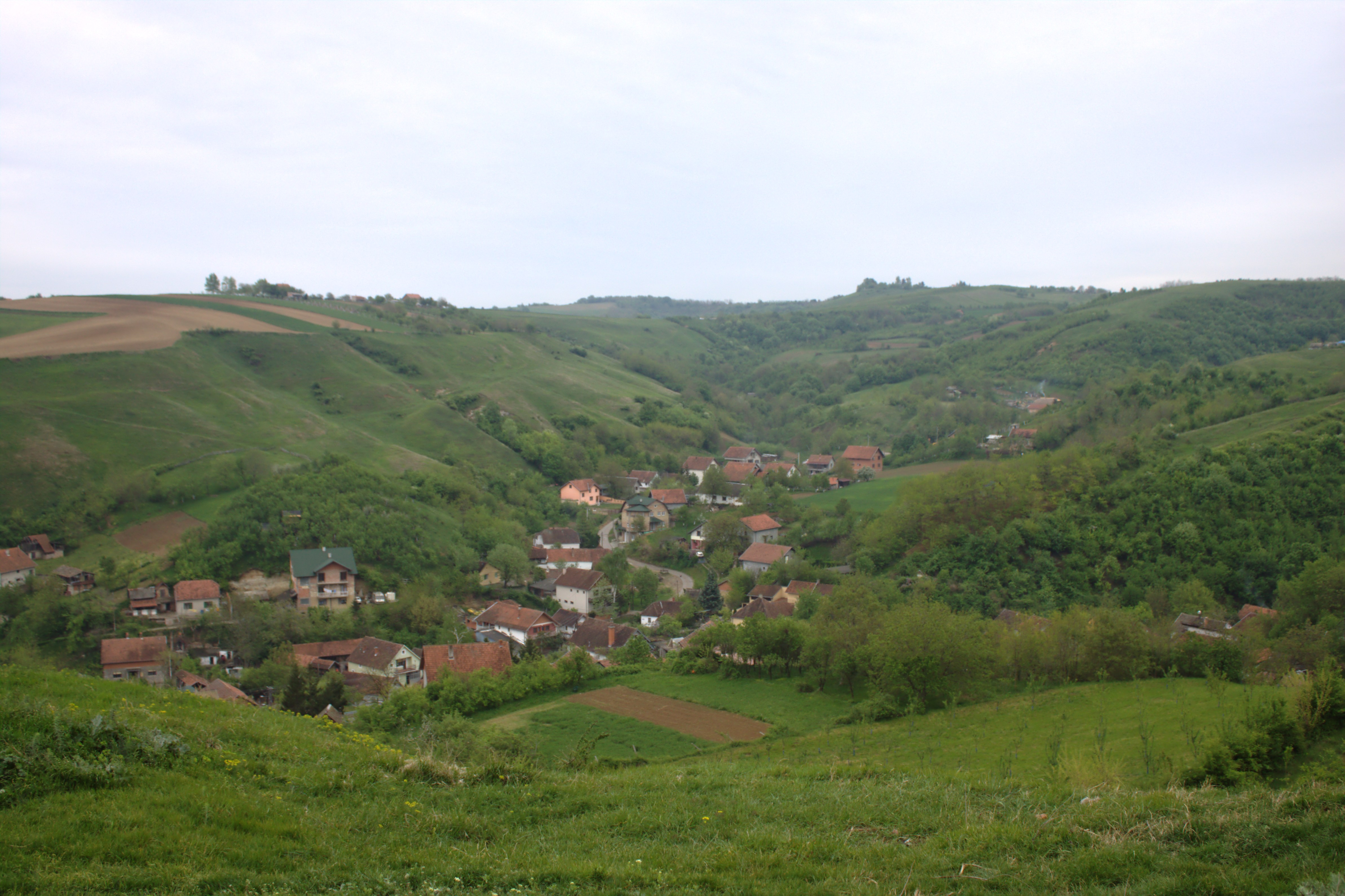 A view of the village of Bukovac (part) from a local plateau, where a a road towards TV tower and Fruška Gora National Park is situated. Vojvodina, Serbia